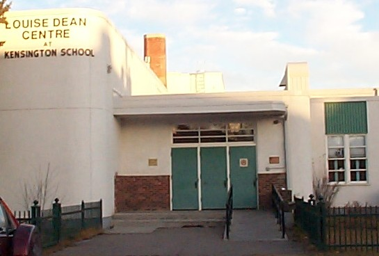 Louise Dean Centre (at Kensington School building), operated by the Calgary Board of Education. Its address is 120 - 23 Street N.W. This is the front of the building along 23 Street NW. Calgary, Alberta, Canada, T2N 2P1.